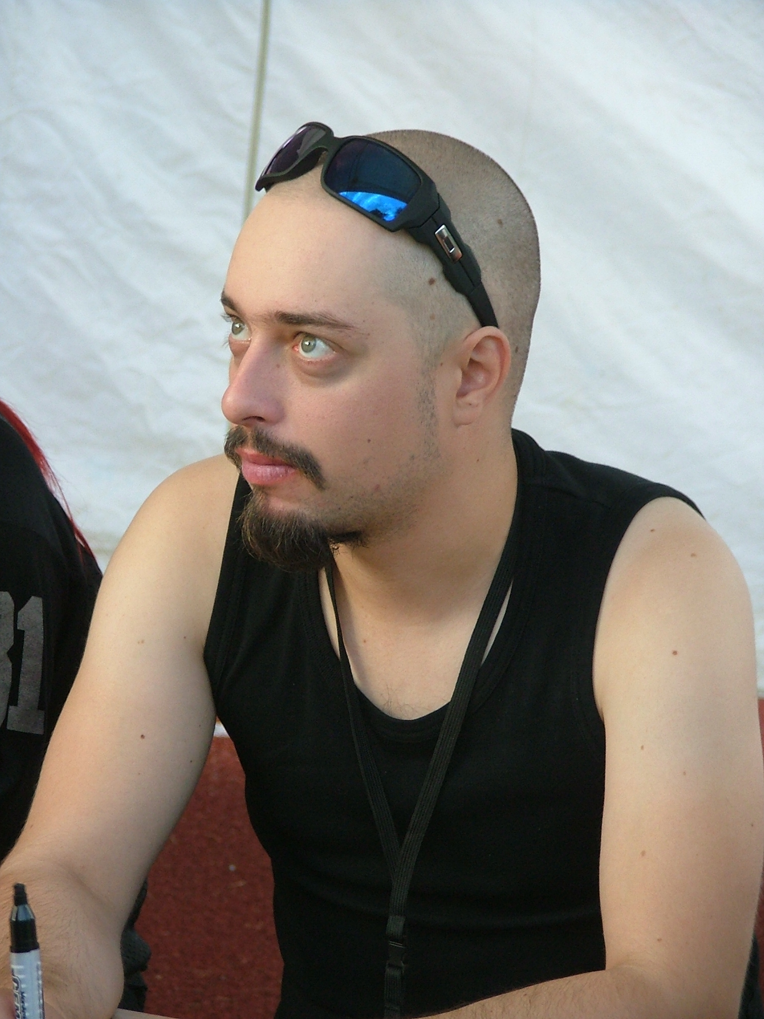 Martin Skaroupka of english metal band Cradle of Filth in Kuopio at Rockcock-musicfestival